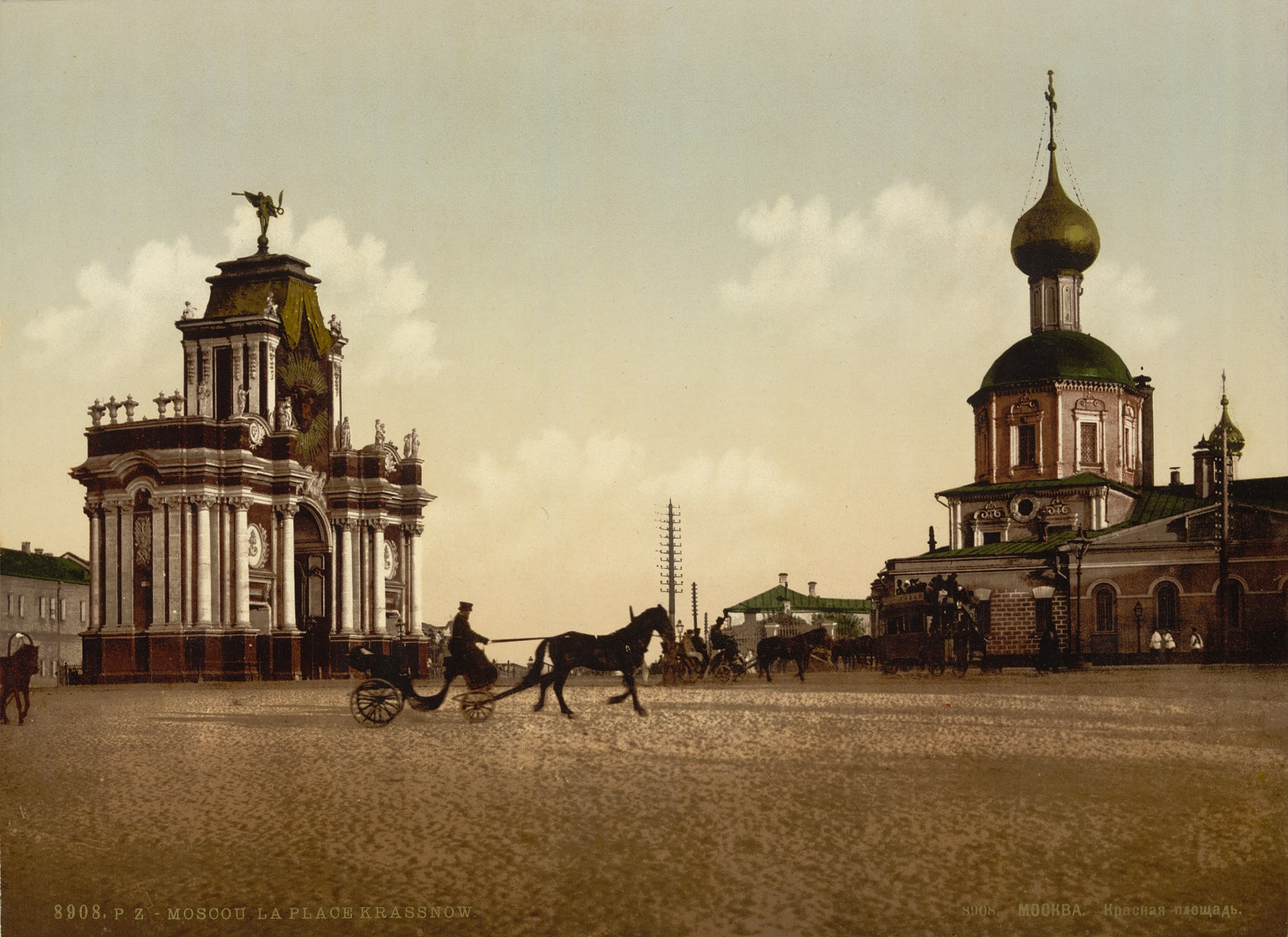 pre-revolutionaty russian postcard of Red Gate and the church of Three Holy Hierarchs (Трех Святителей у Красных Ворот)